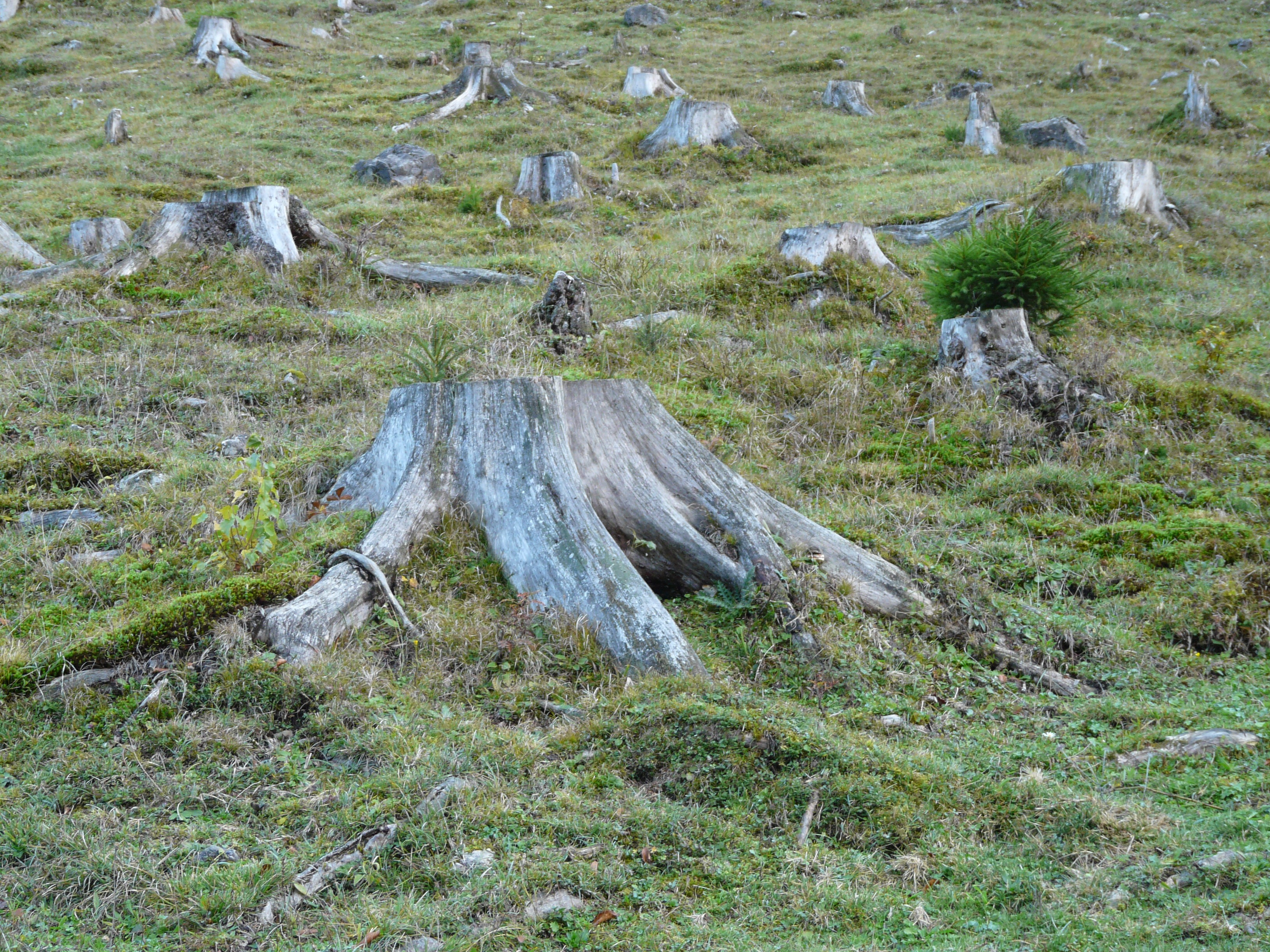 Tree stumps after a deforestation